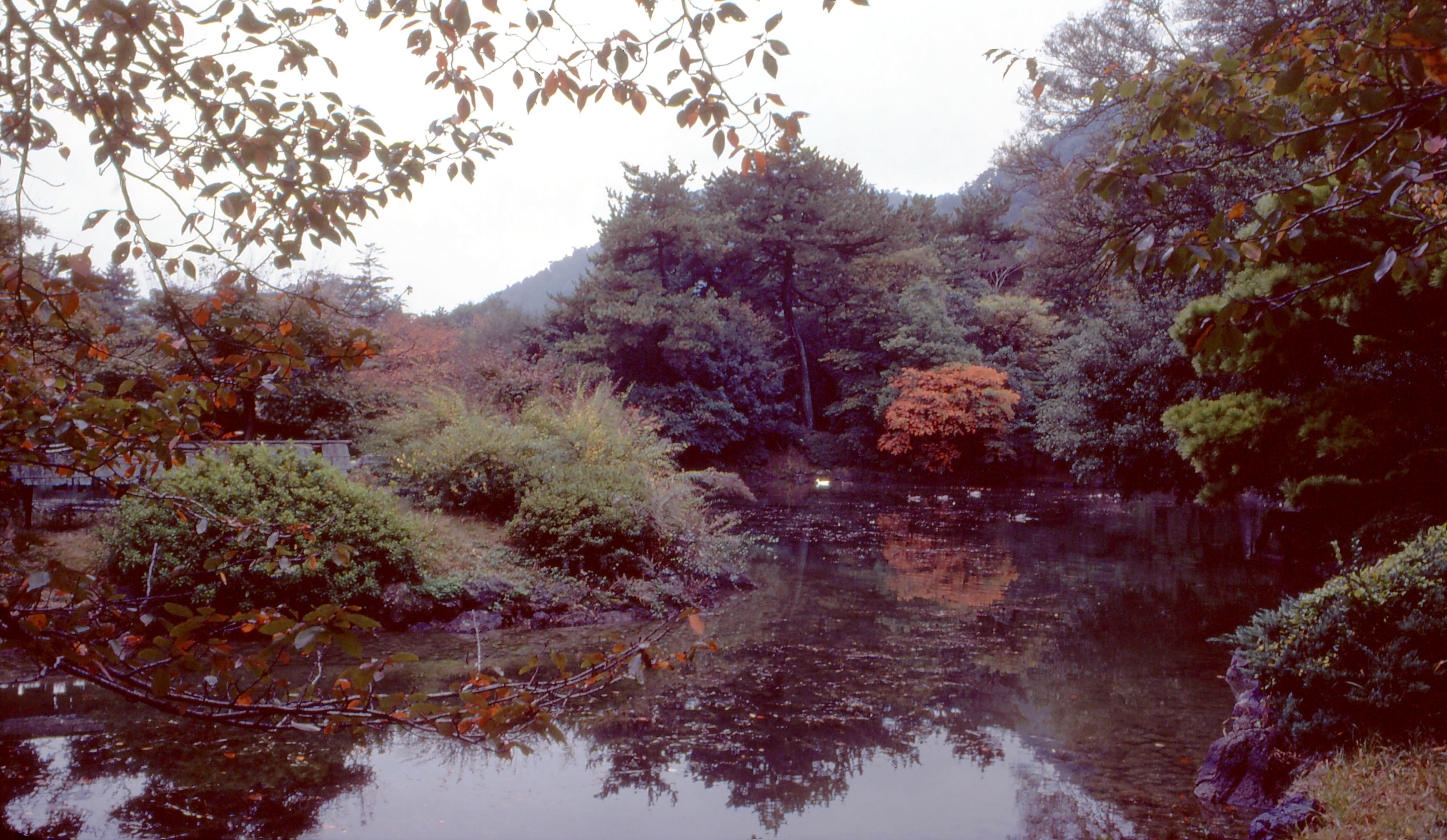 Ritsurin Park, Takamatsu Gun-o Pond